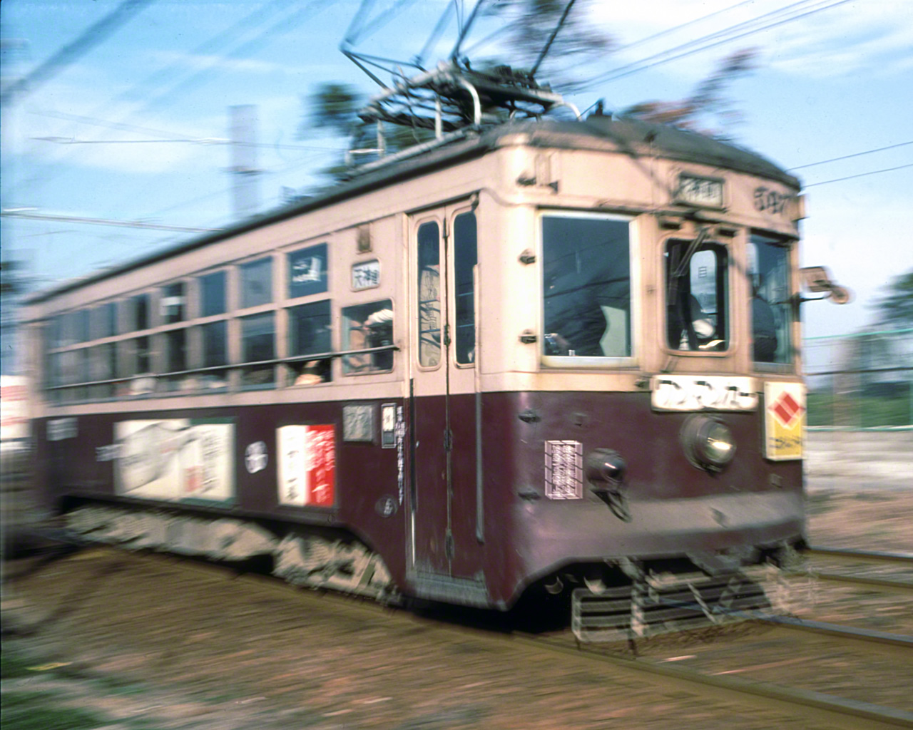 Nishi-Nippon Railroad Fukuoka Shinai Line tram